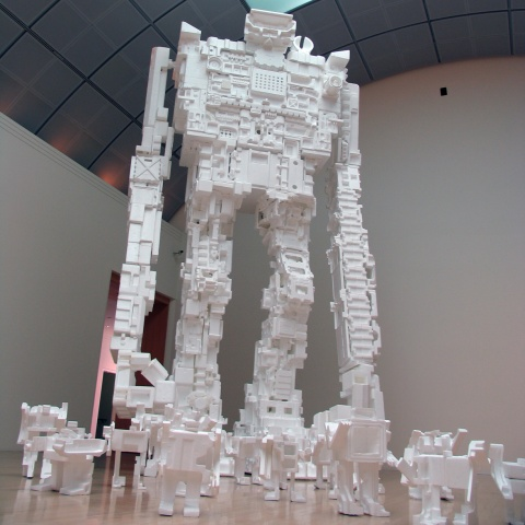 Giant styrobot installation at the San Jose Museum of Art, 2008, 22 feet high. A part of the exhibition "Robots: Evolution of a Cultural Icon", at the San Jose Museum of Art, 12 April 2008 - 19 October 2008.